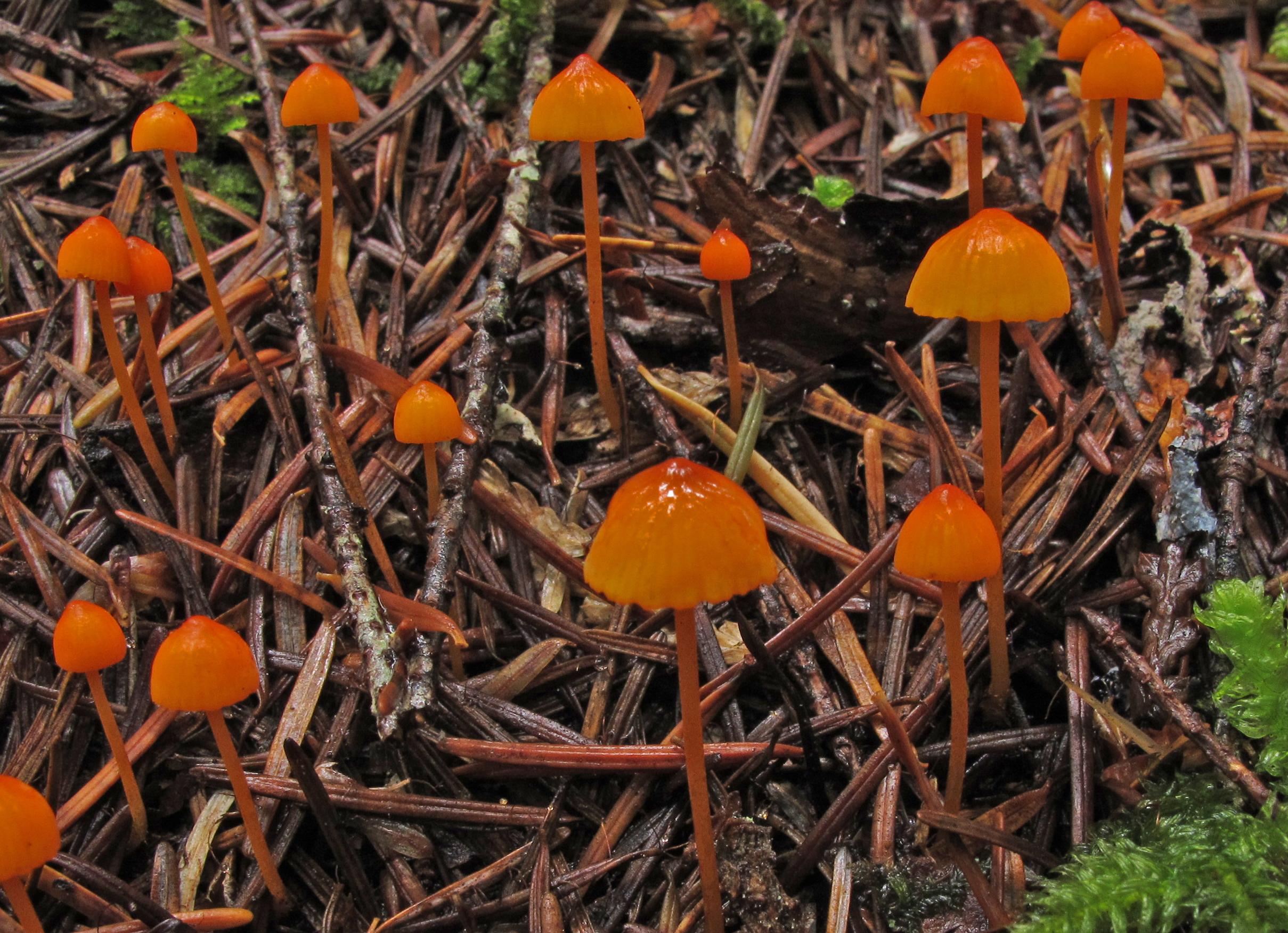 Fruit bodies of the agaric fungus Mycena strobilinoides Peck. Photographed in Southeastern Gifford Pinchot National Forest, Washington, USA.